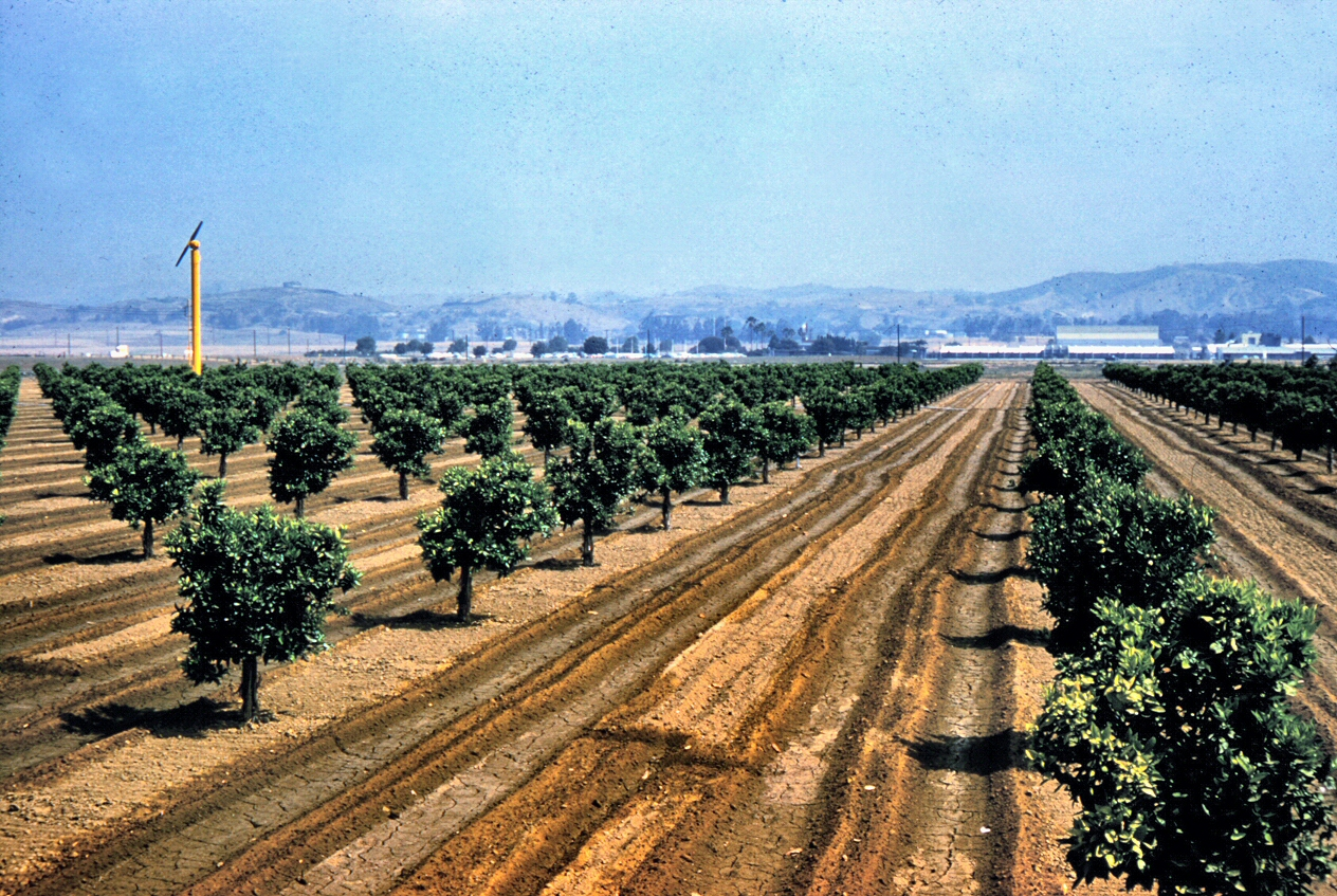 Citrus groves, Golden Avenue, Placentia, California, USA, June 1961